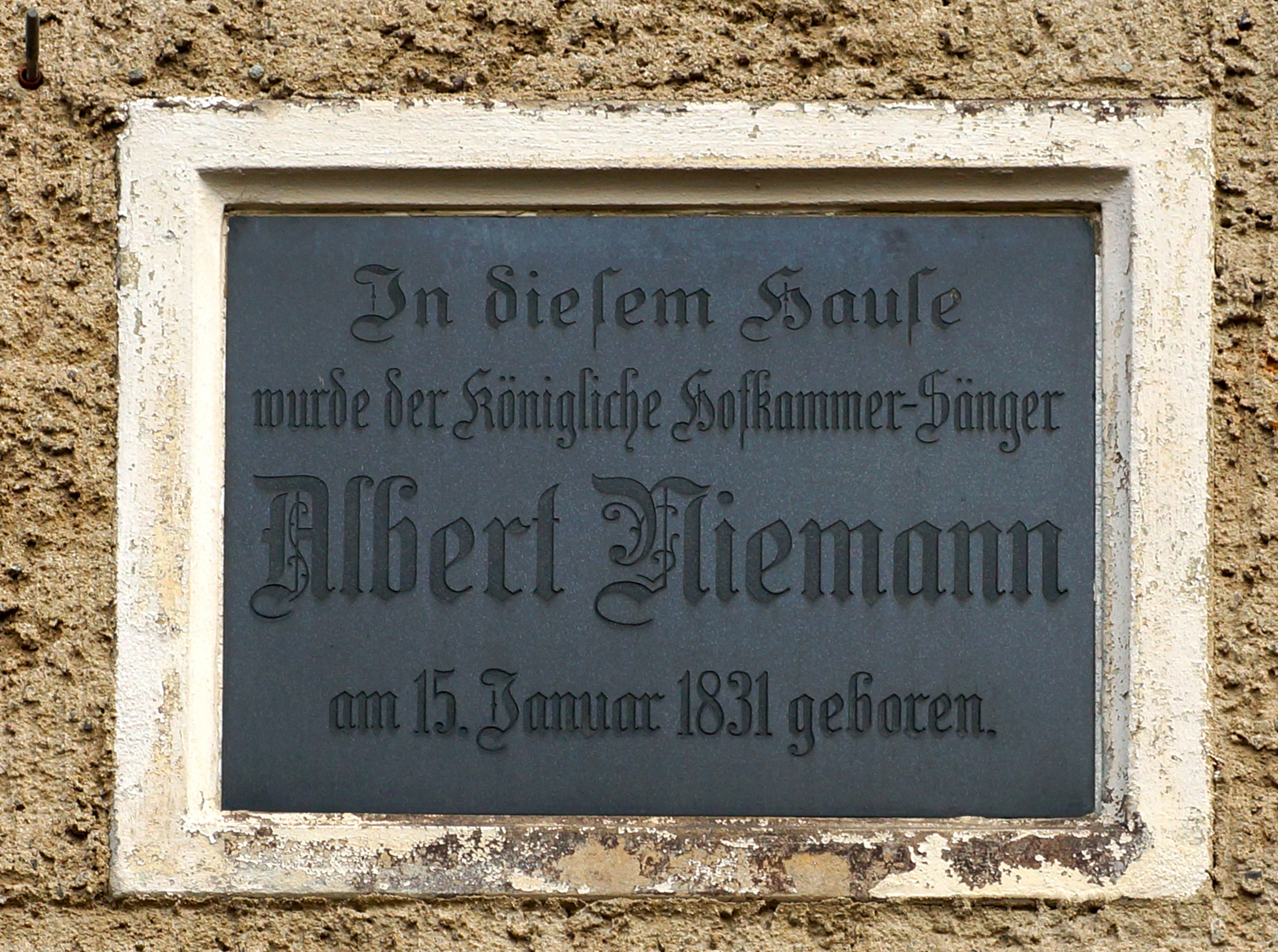 Erxleben, Germany: Plaque at the birth's place of Albert Niemann